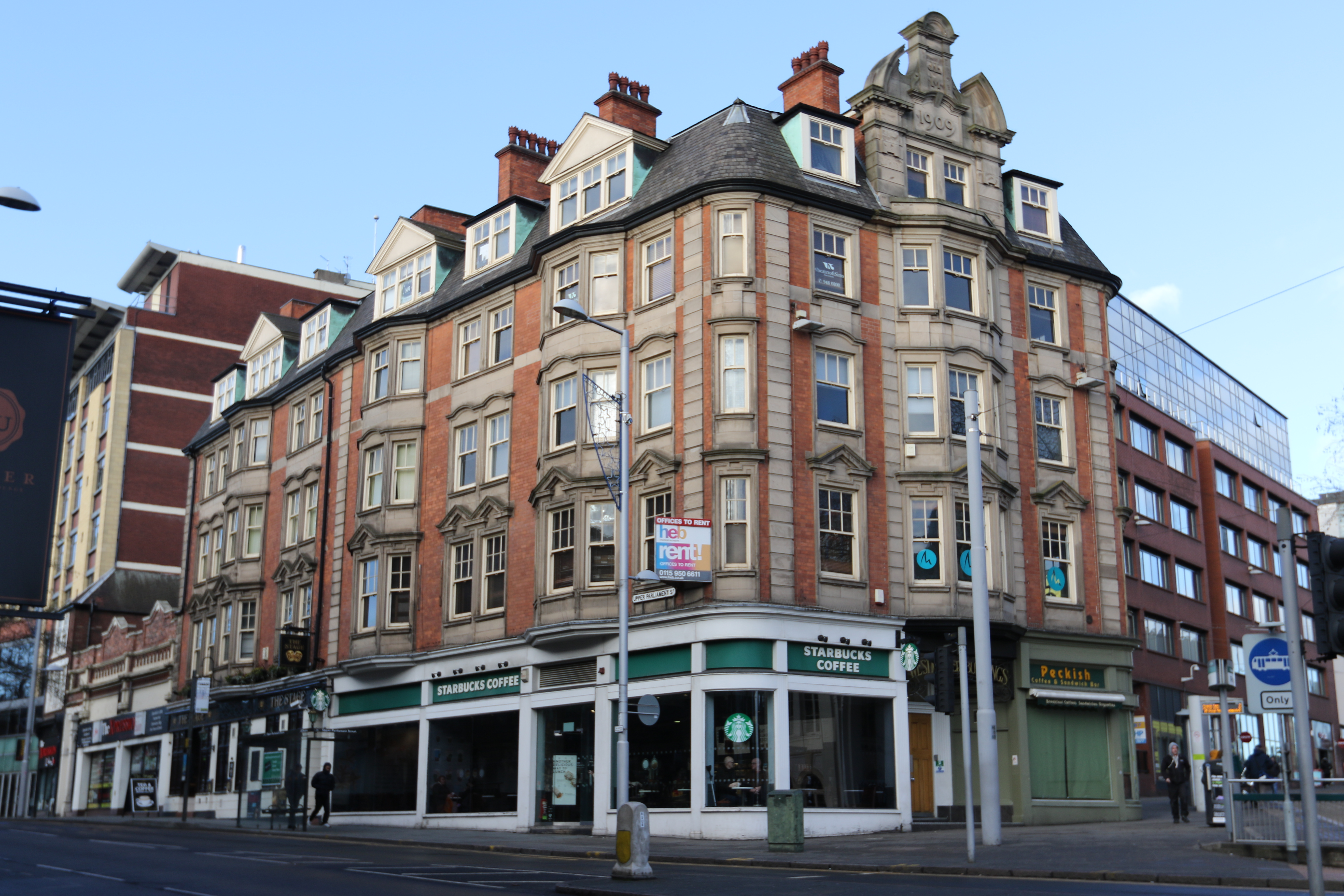 Westminster Buildings on Upper Parliament Street, Nottingham by Abraham Harrison Goodall 1909.